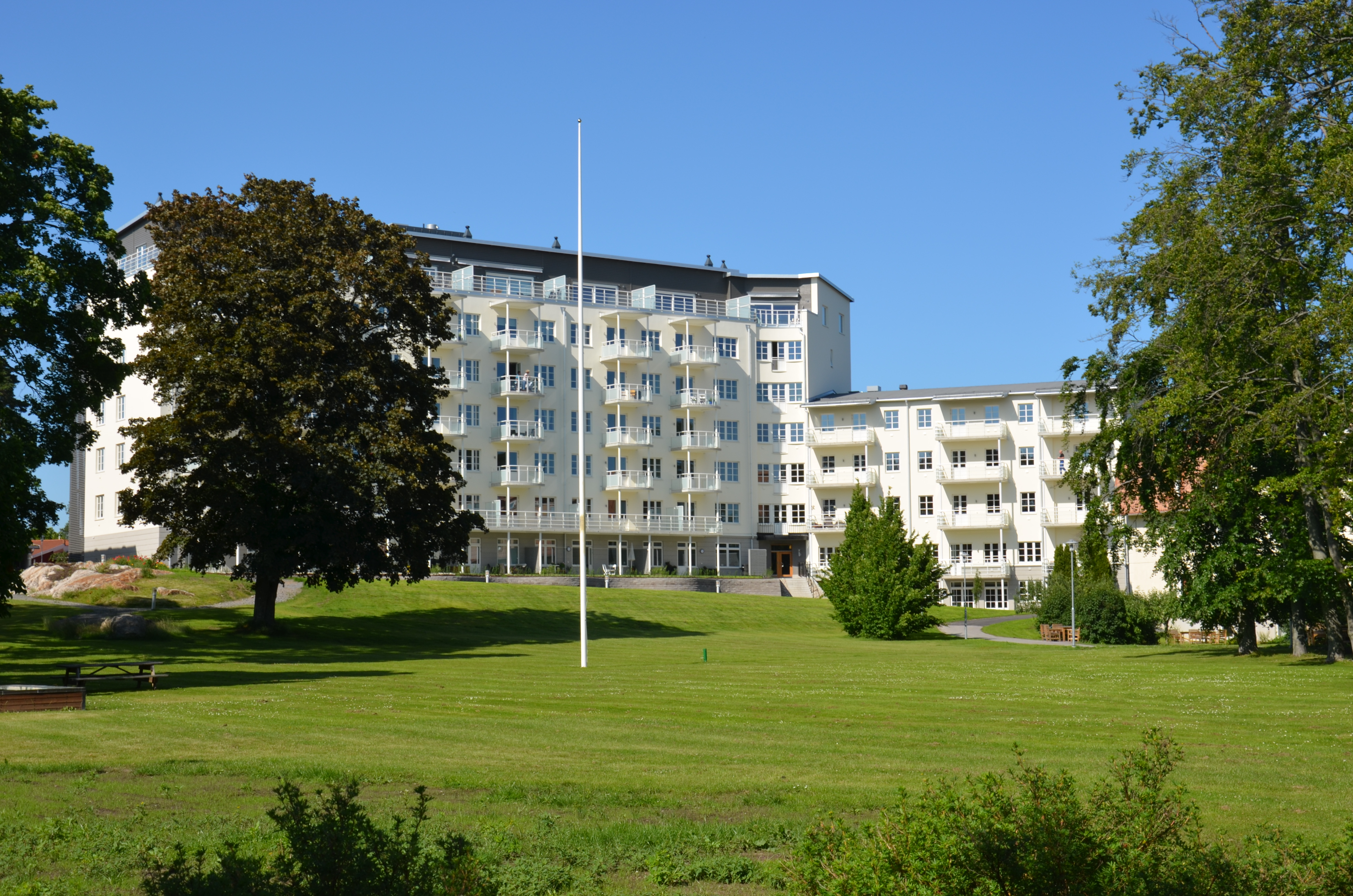 Nynäshamn tidigare Riksförsäkringsverkets sjukhus. Bilden tagen 2012, efter ombyggnad till bostadshus